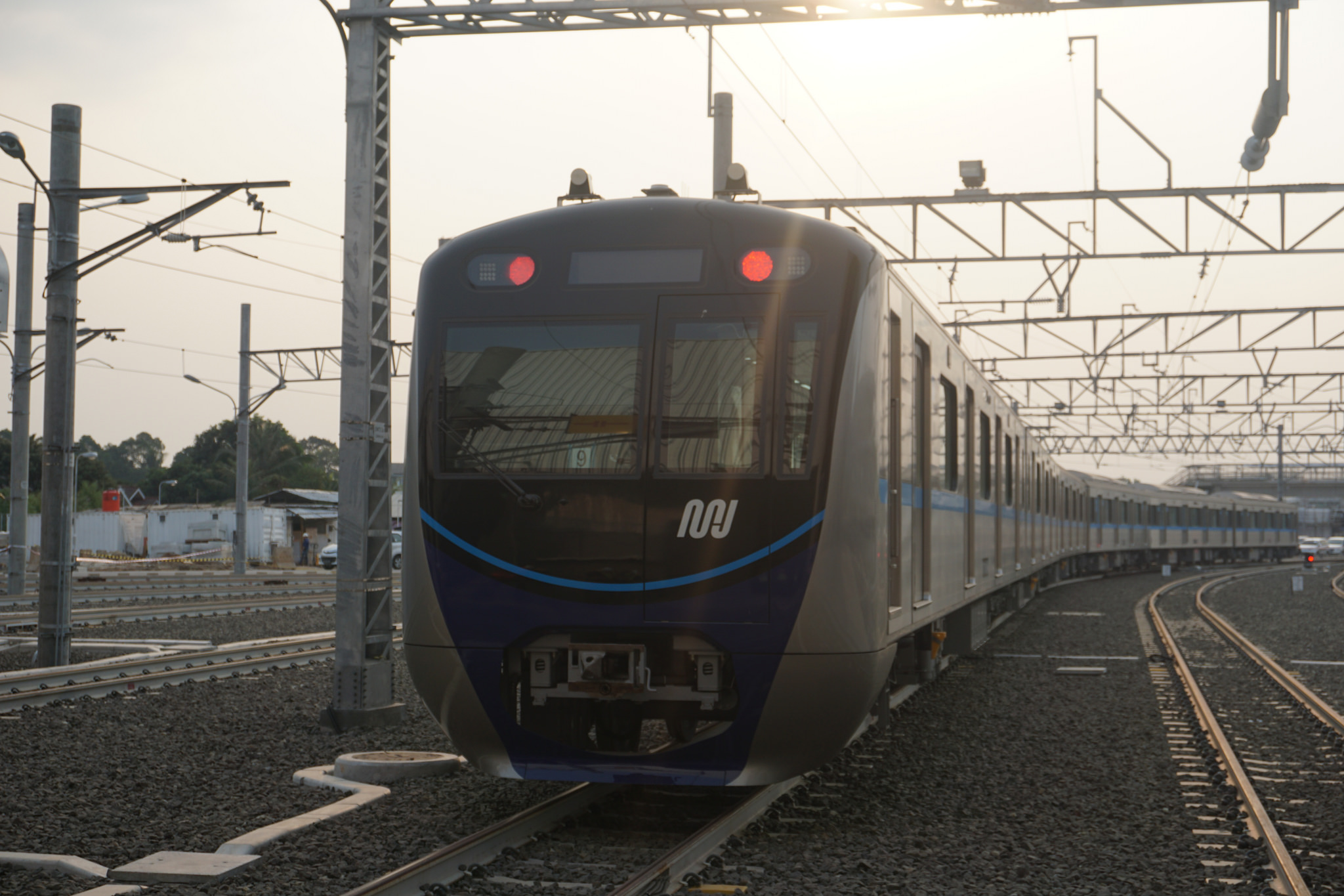 MRT Jakarta rolling stock from Nippon Sharyo on trial run in Lebak Bulus Depot